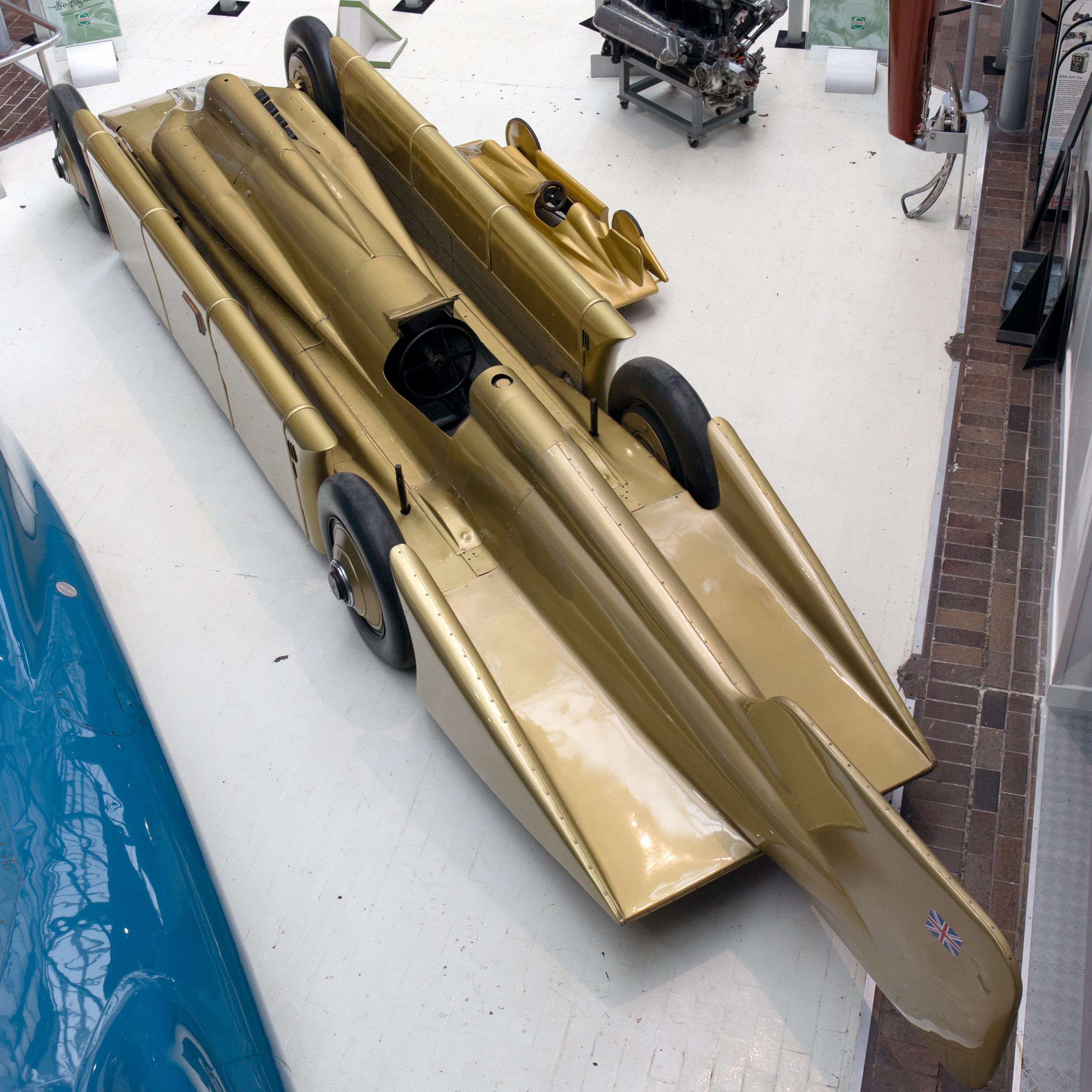 Golden Arrow